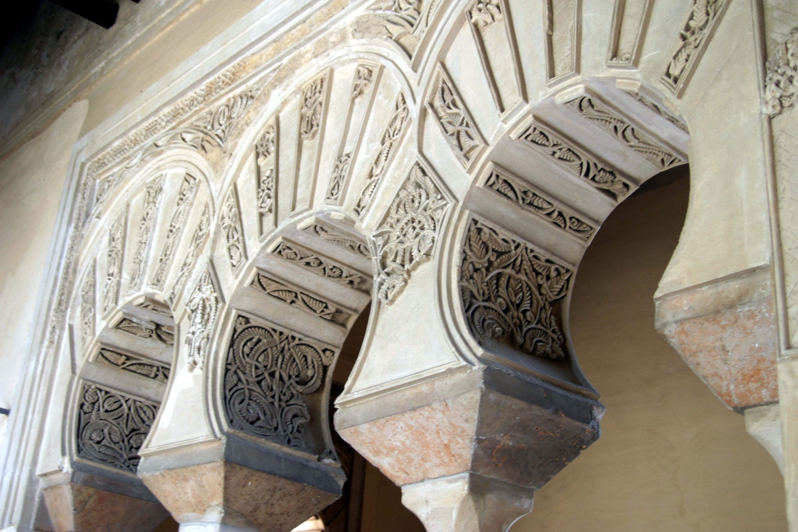 Alcazaba of Malaga, Spain